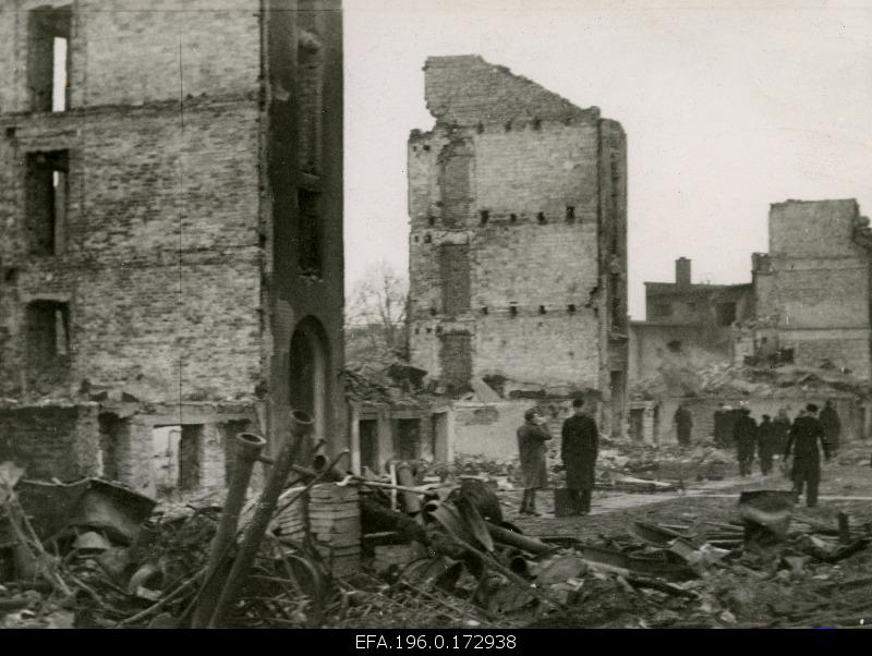 Harju street after the bombing on March 9, 1944 (Tallinn)